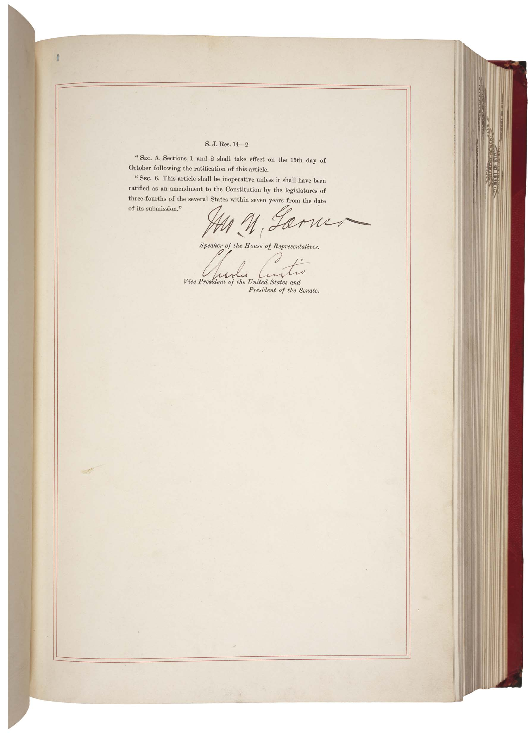 Joint Resolution Proposing the Twentieth Amendment to the United States Constitution, page 2